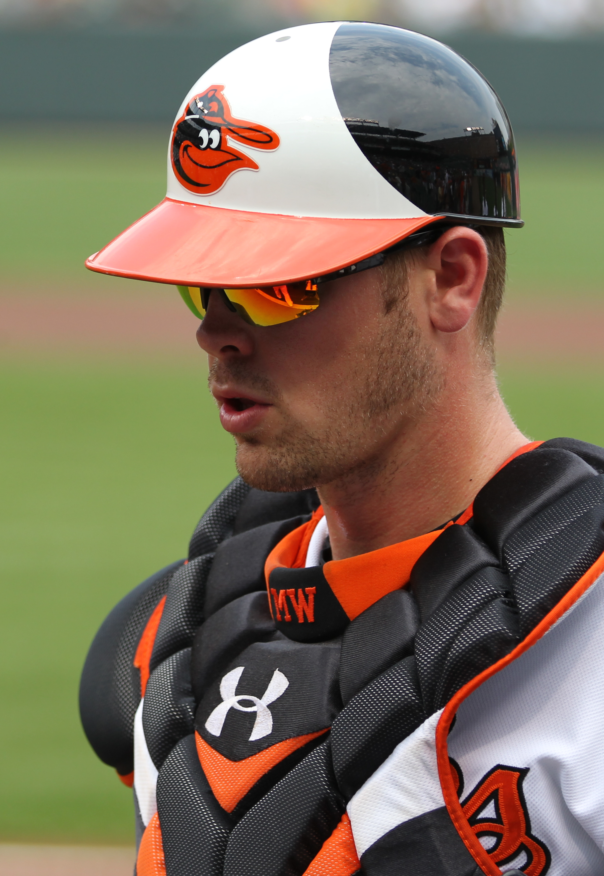 Angels at Orioles July 24, 2011.